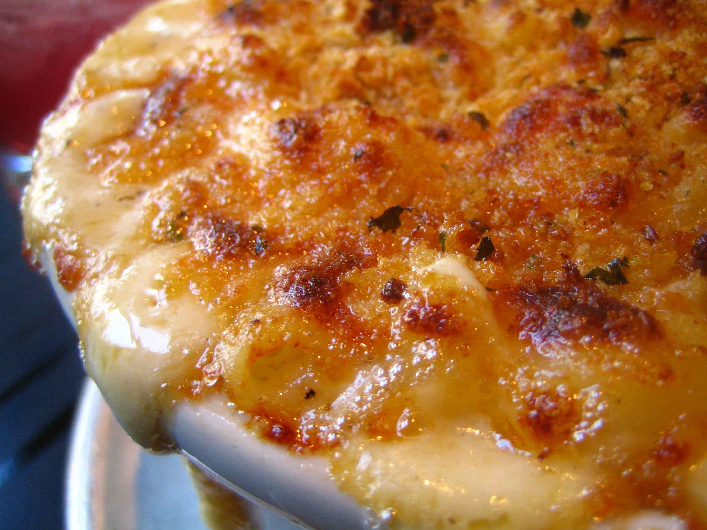 Closeup of macaroni and cheese with a panko breadcrumb topping as served by Blue at 2337 Market Street in San Francisco, California, USA. “Gourmet Mac & Cheese: Fresh mozzarella, sharp cheddar, Parmesan, elbow pasta, topped with Japanese bread crumbs.” Description from their online menu as viewed on 2007-06-01.